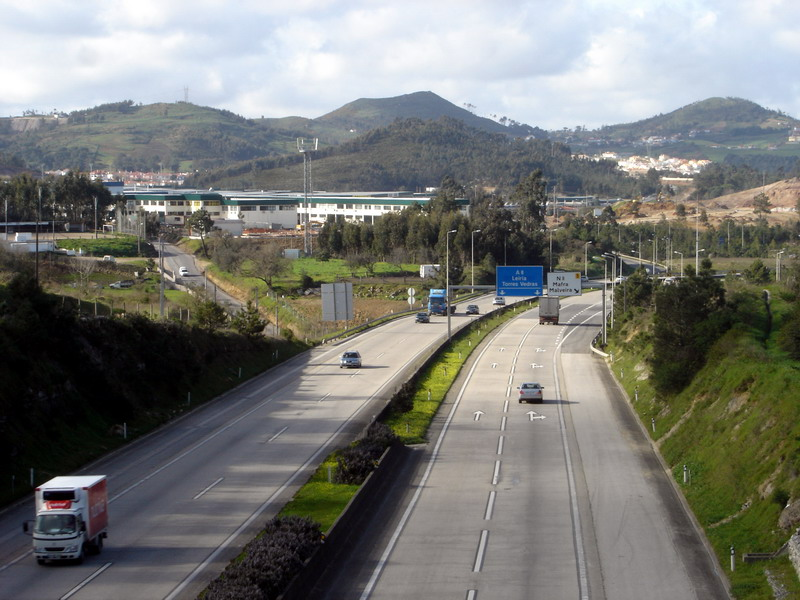 Highway A8 near Malveira, Portugal.